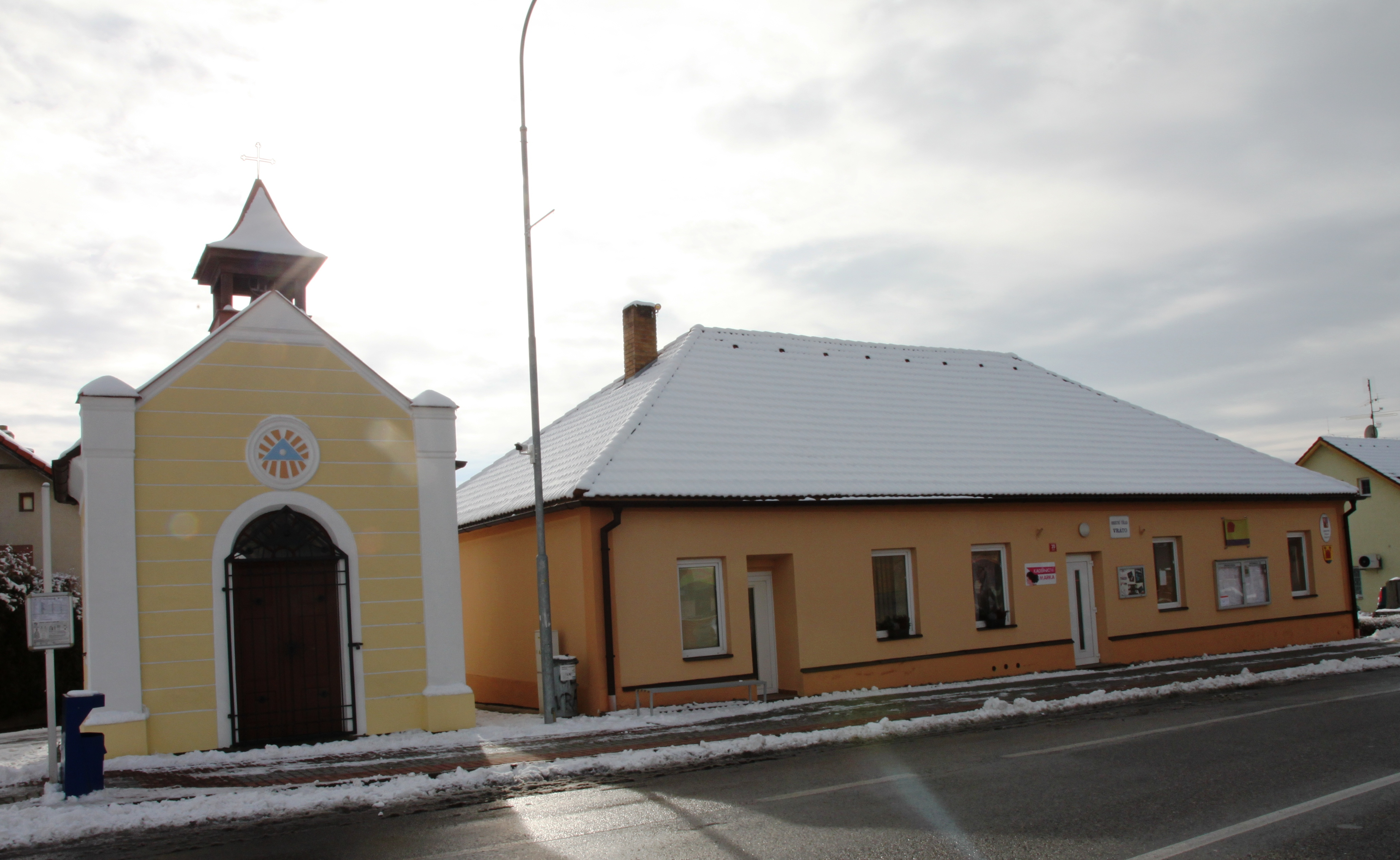 St. Wenceslaus Chapel and Municipal Office in the village of Vráto, České Budějovice District, Czechia